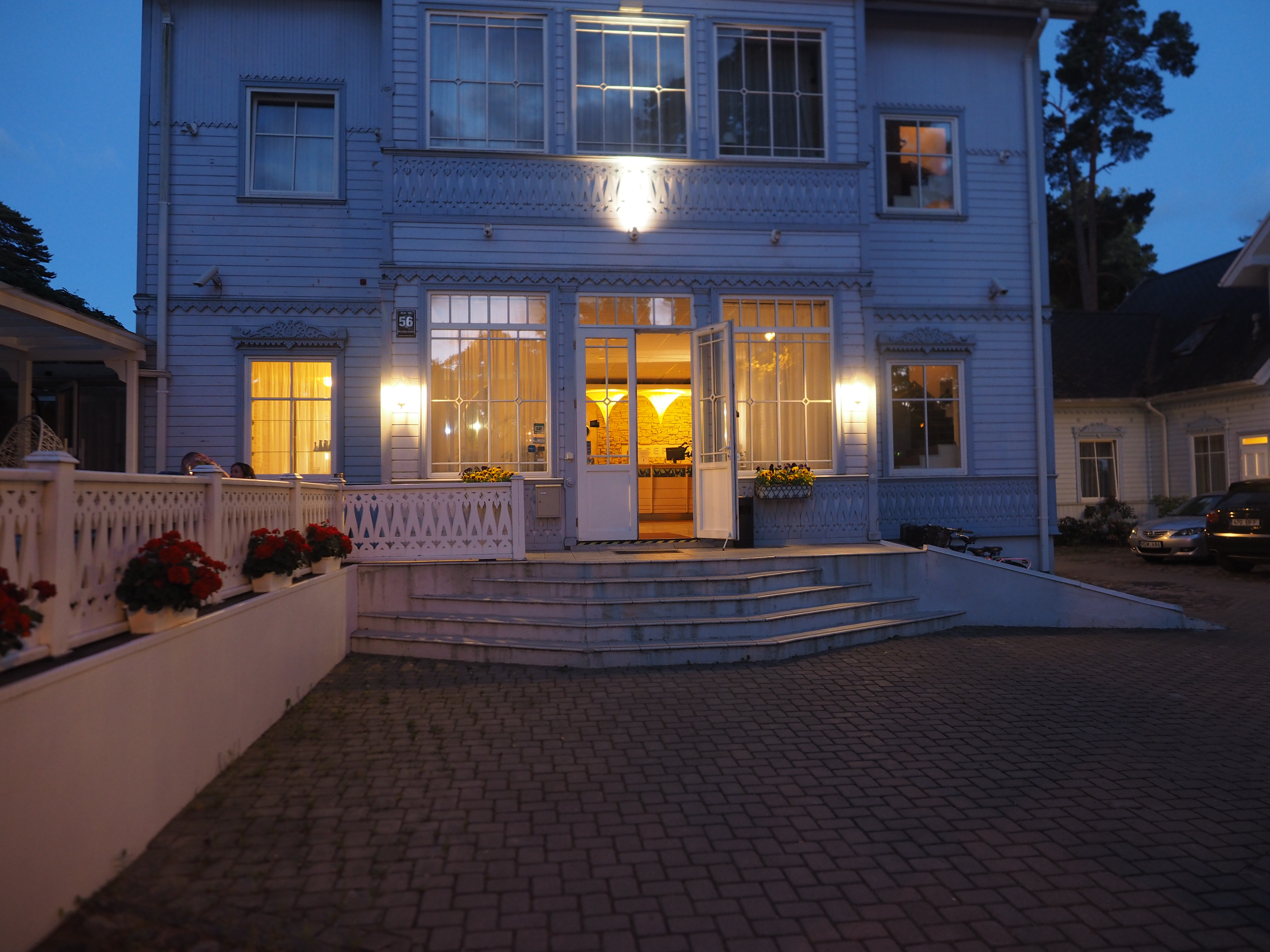 Good Stay Eiropa Hotel in Jurmala, Latvia, at about 11:25 PM (local time).